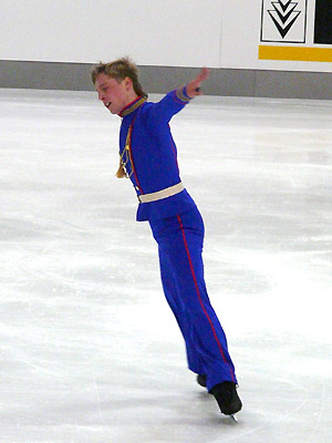 Vitali Sazonets during his long program at the 2007 Nebelhorn Trophy.